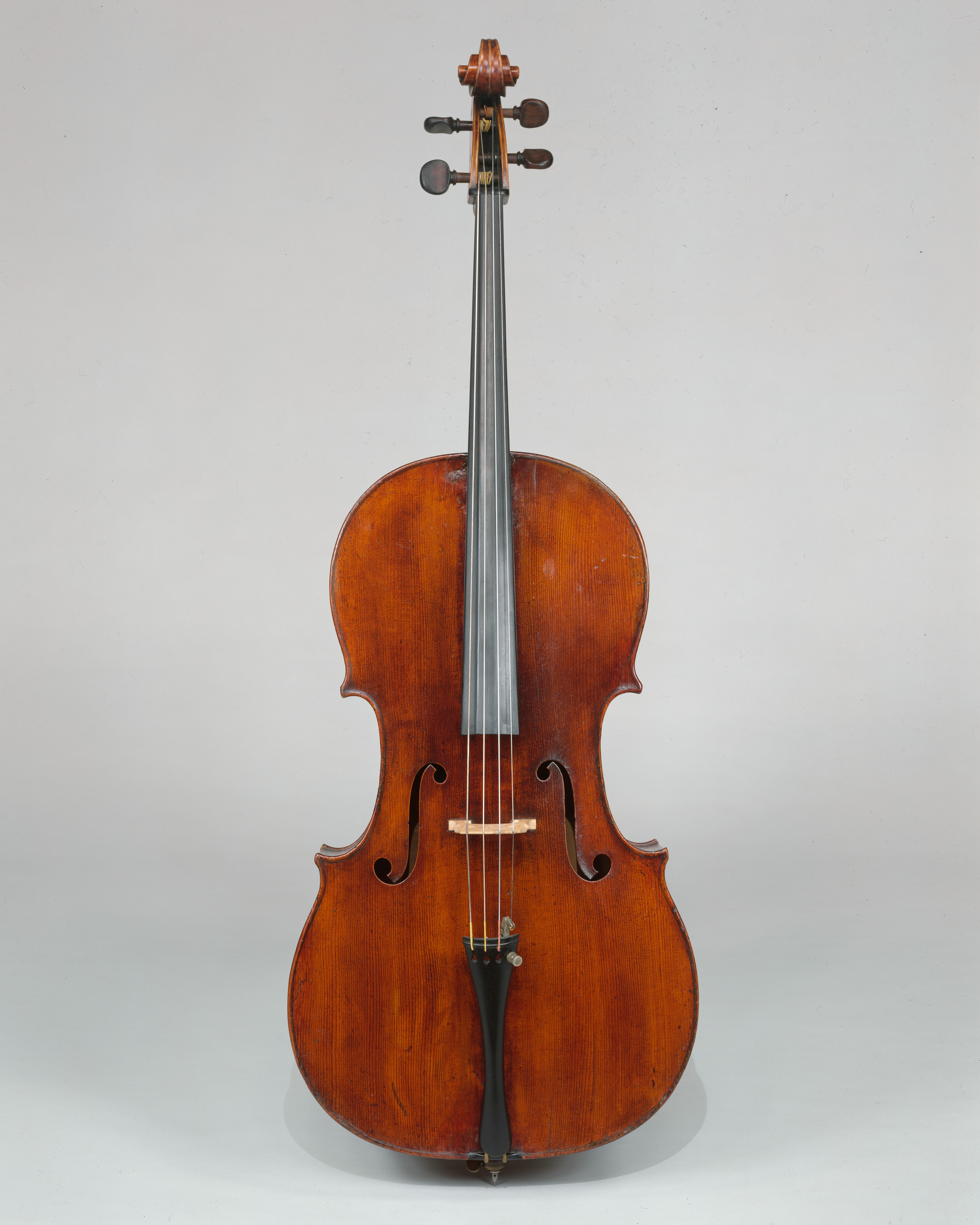 French; Violoncello; Chordophone-Lute-bowed-unfretted